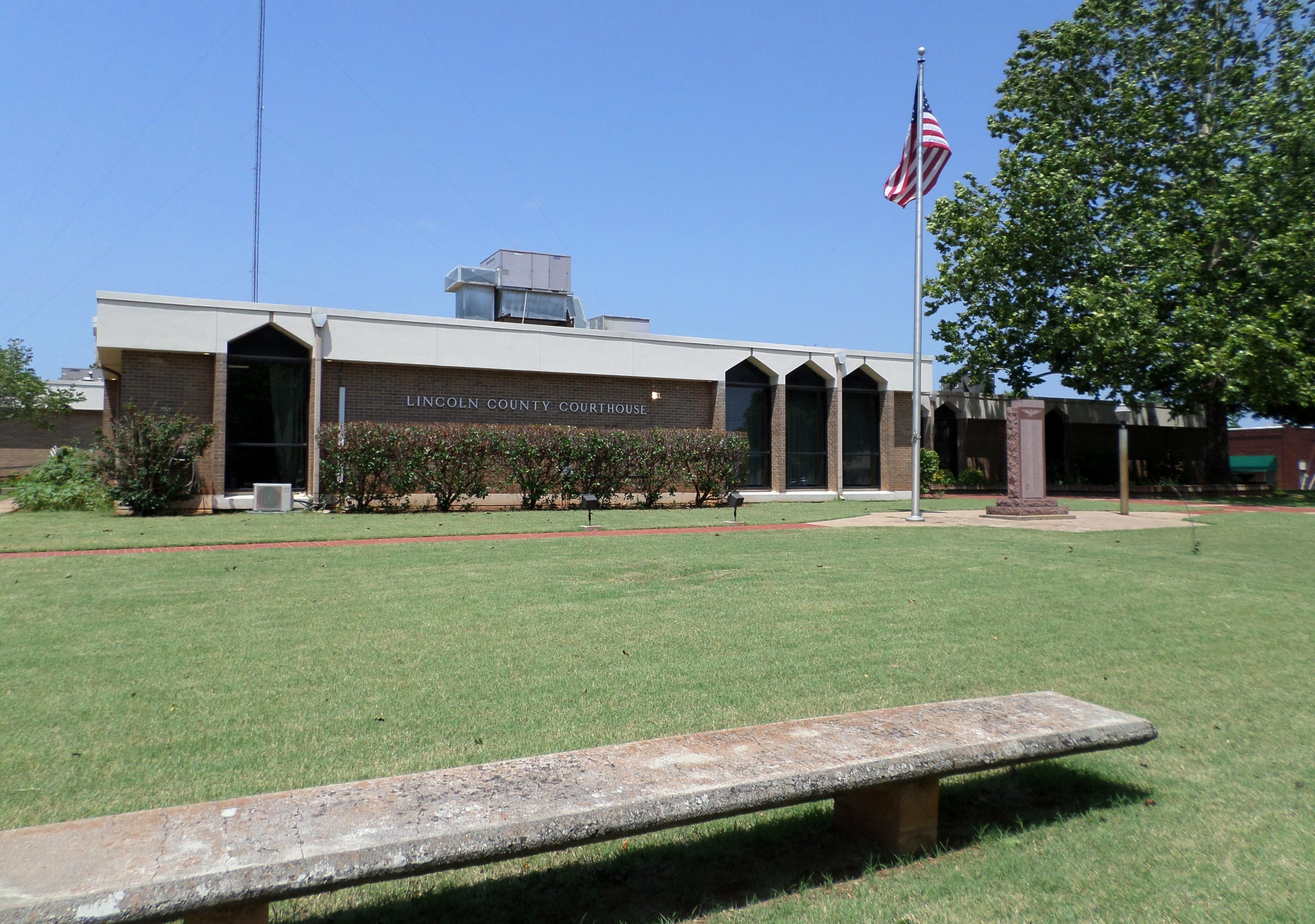 Lincoln County Courthouse, located at 811 Manvel Ave., Chandler, OK.